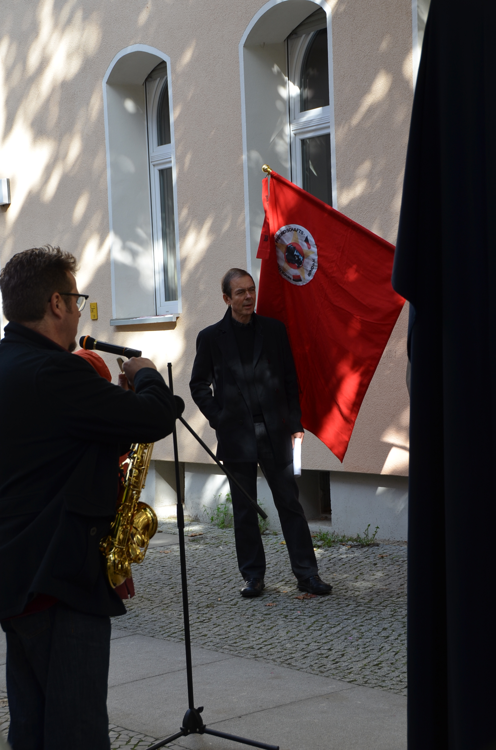 Tucholla-Stele